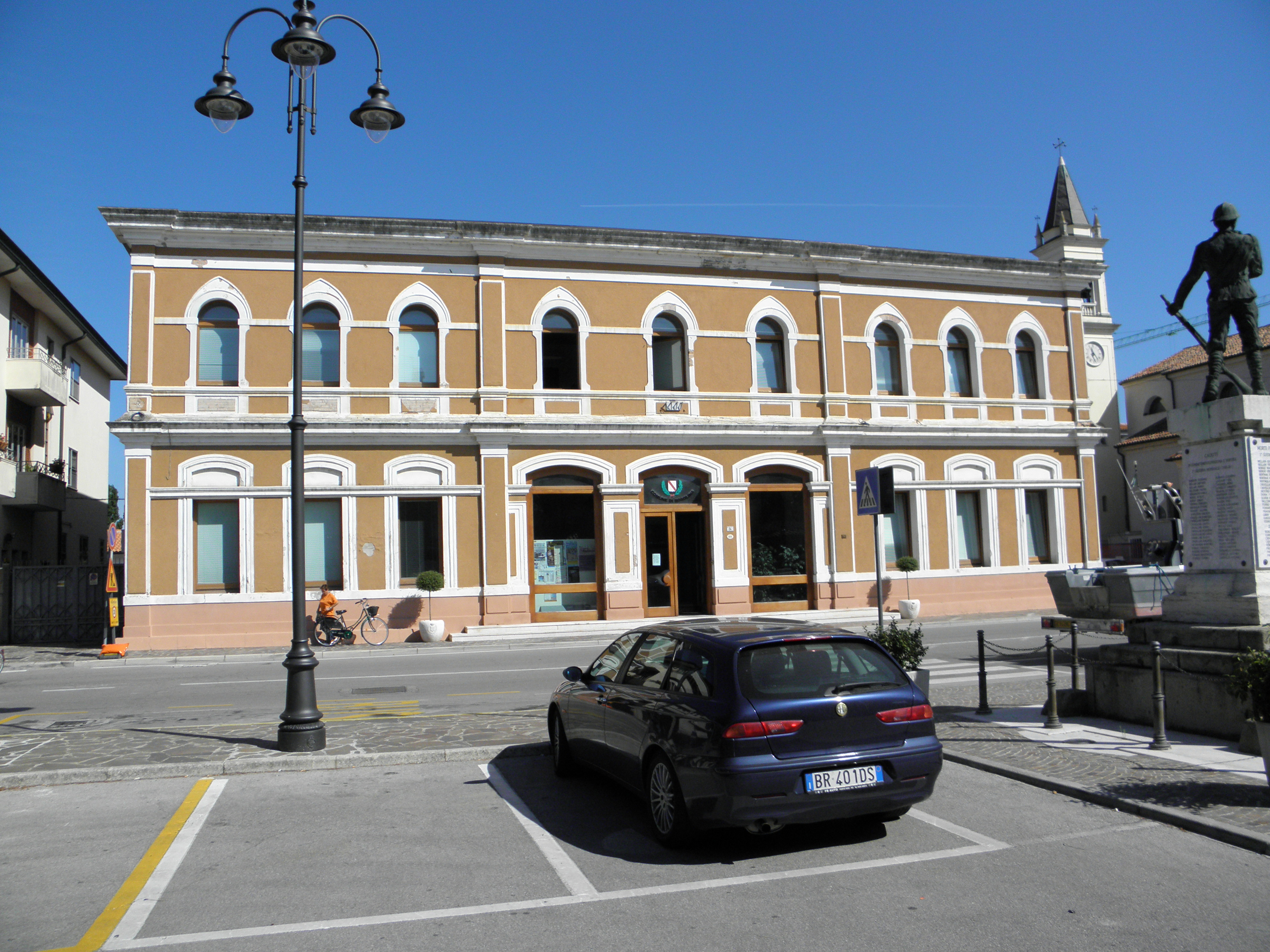 Municipal House in Rosolina, province of Rovigo.